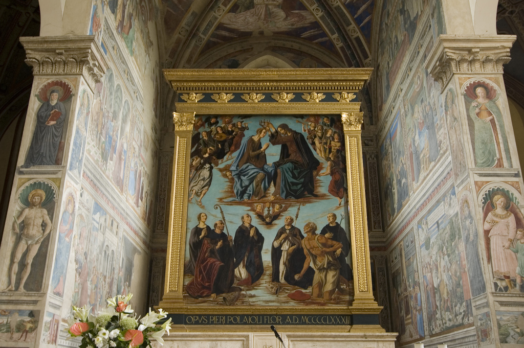 "Coronation of the Virgin"" by Piero Pollaiuolo, the chancel of the Church of St Augustine (Sant'Agostino) in San Gimignano, Tuscany, Italy. The walls of the chapel have frescos depicting the life of St Augustine by Benozzo Gozzoli.